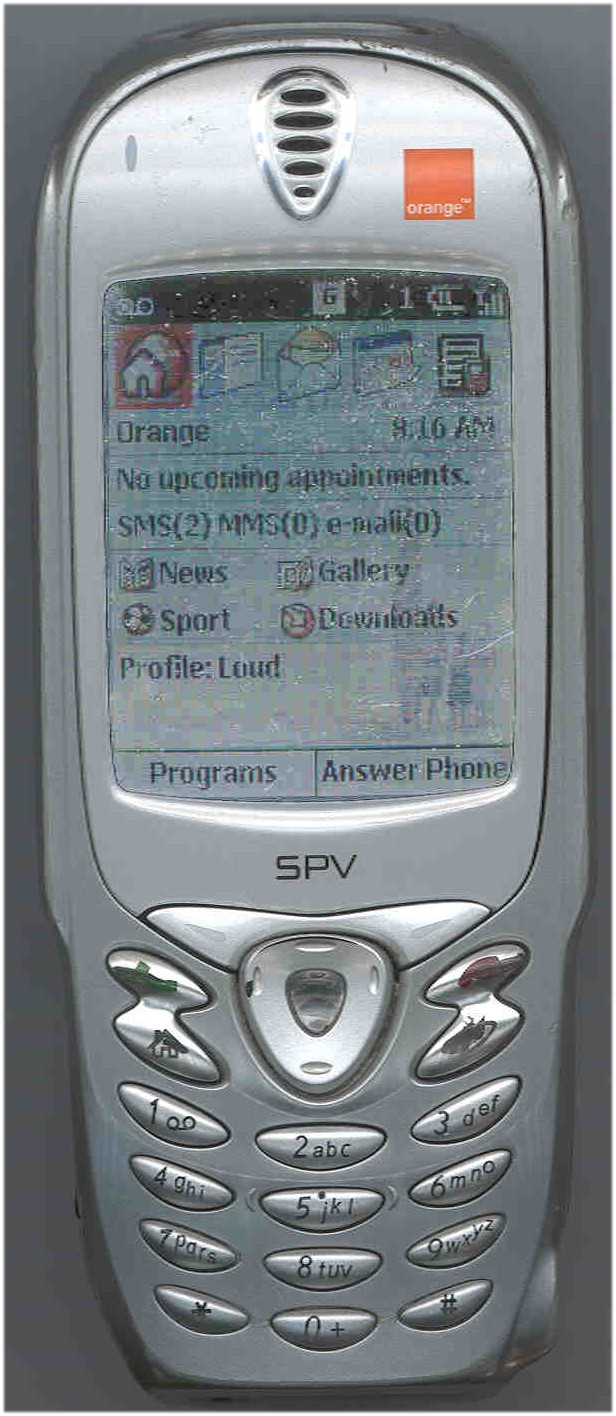 Orange SPV Classic phone. Picture created by scanning my phone - sorry about the terrible quality.